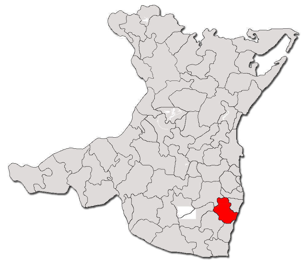 Contour map of commune 23 August